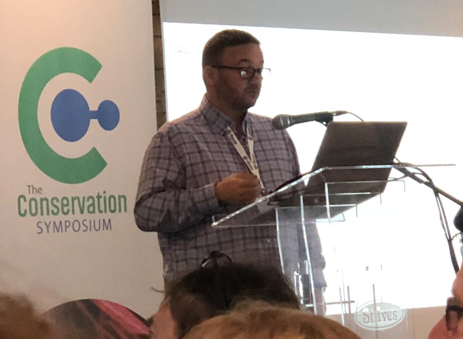 Michael Bruford at The Conservation Symposium 2018, St. Ives, South Africa.